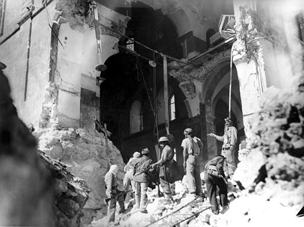 Arab Legion people at the Jewish synagogue they blew to pieces to flush out the Jews from Jerusalem